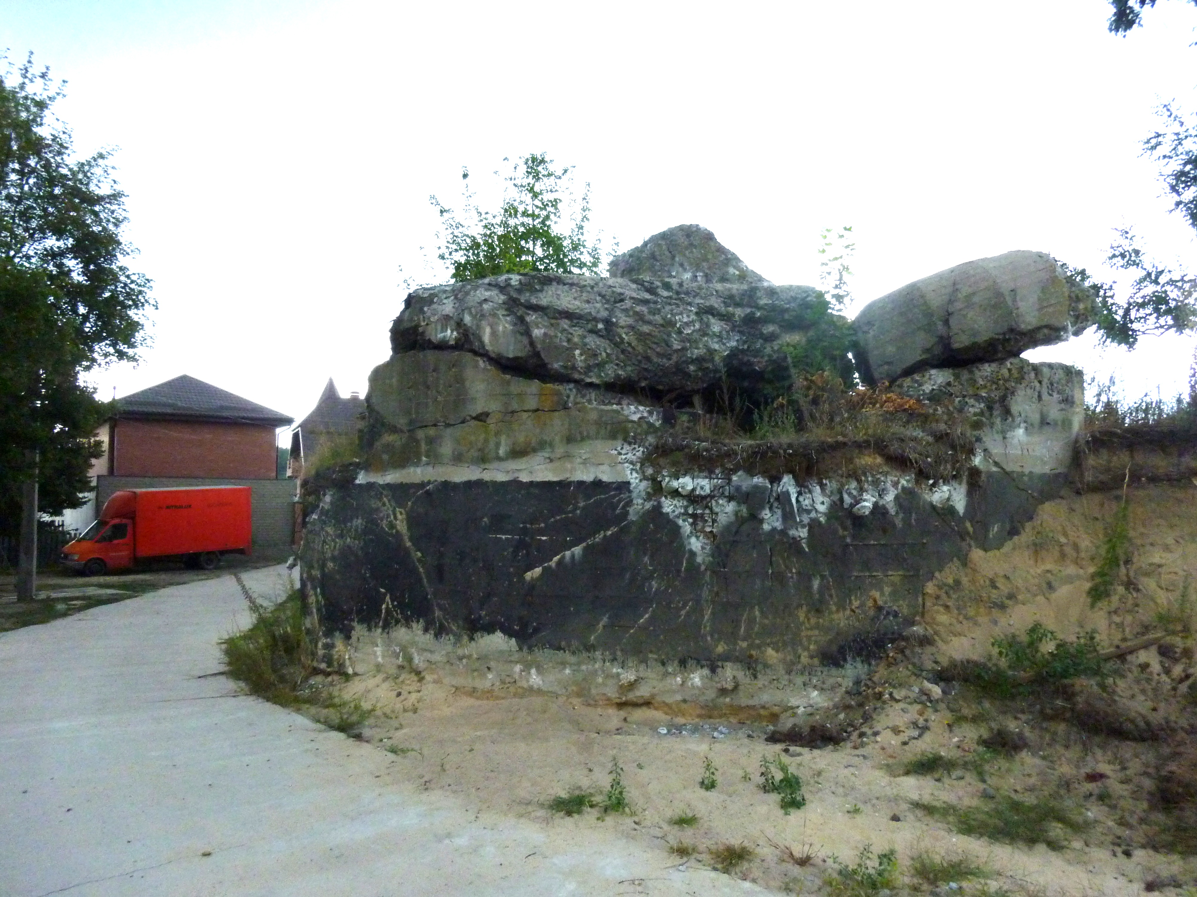 Pillbox 485 (Kyiv Fortified Region)